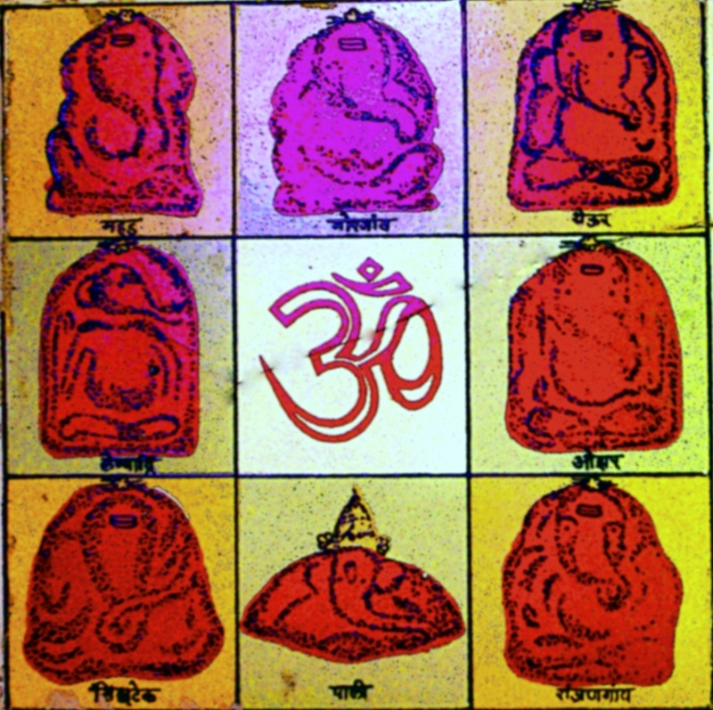 A tile on a temple wall in a street in Pune of the famous ashtavinayak yatra. I had the great good fortune to do this pilgrimage a couple of weeks ago. A life transforming event!